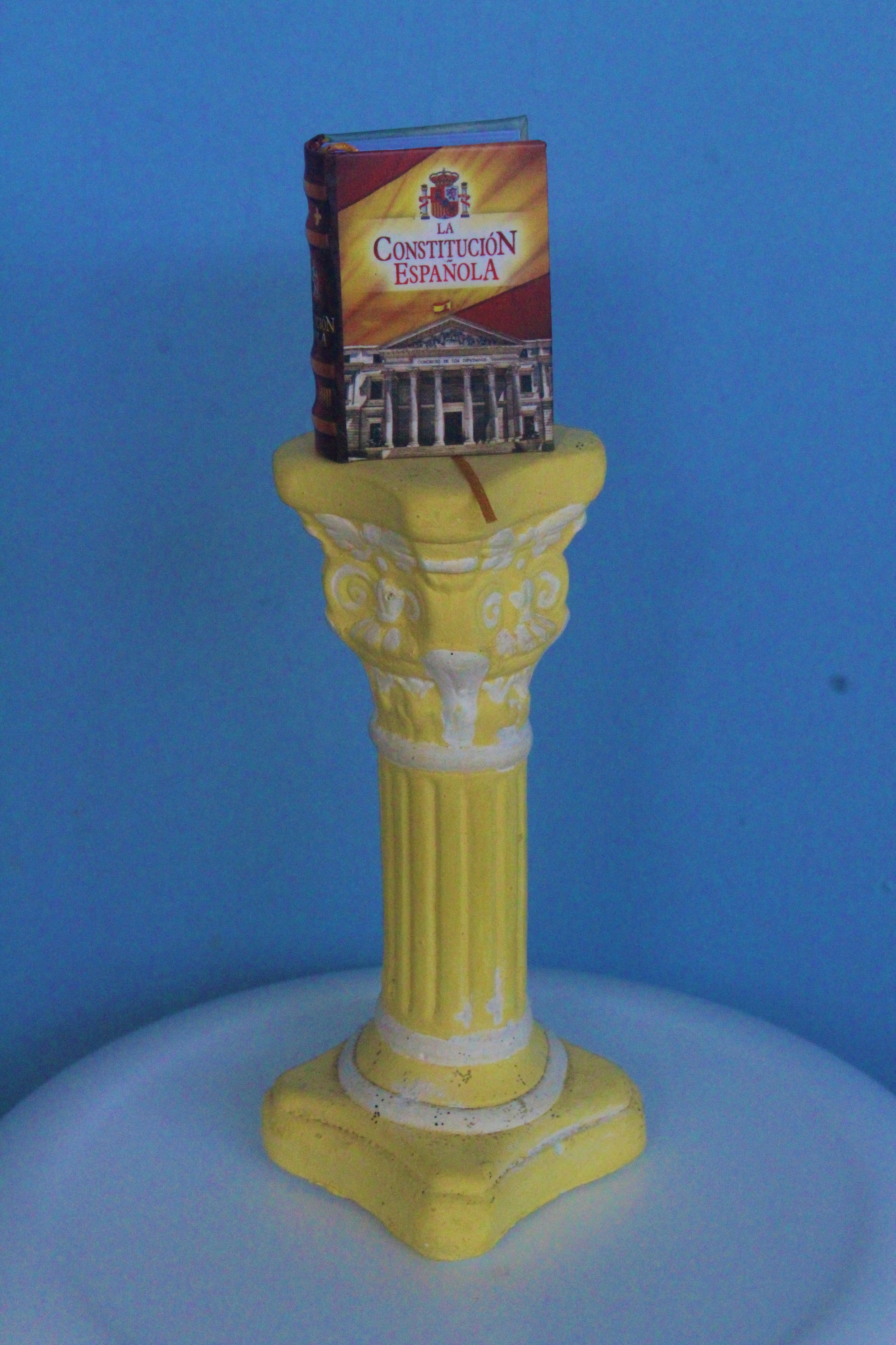 Spanish Constitution of 1978 (in miniature book)